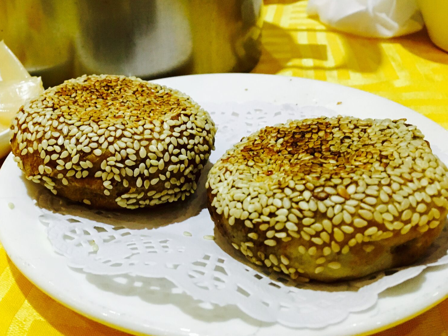 Sesame Shaobing of Beijing, usually consumed with Hot Pot (Instant-boiled mutton)